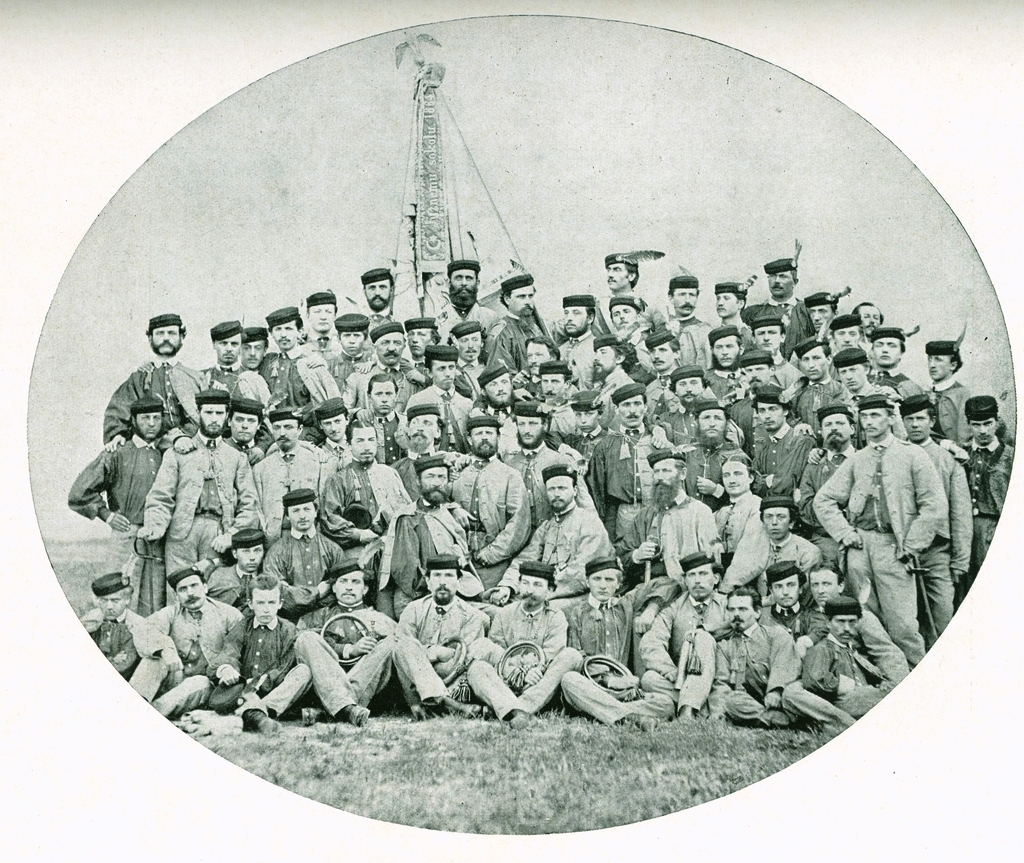 Prvo sokolsko društvo na Slovenskem-Južni Sokol. Društvo Južni Sokol je bilo ustanovljeno leta 1863 v Ljubljani.